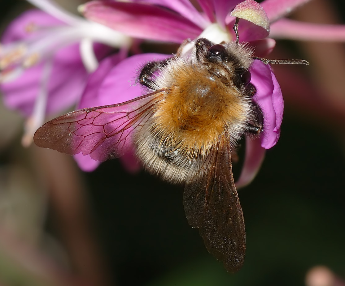 This image shows a Bombus pascuorum bumblebee female.